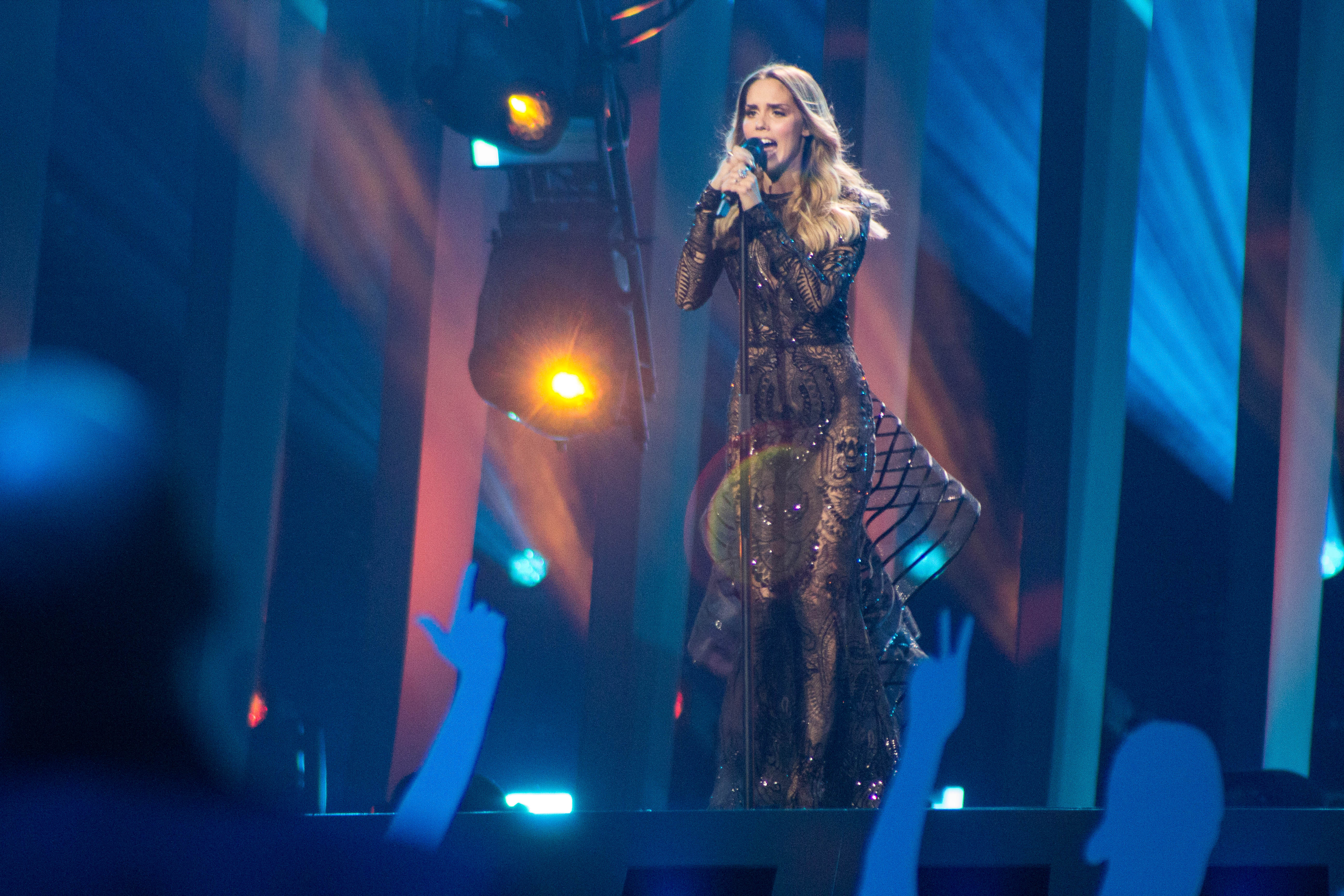 Franka representing Croatia with the song "Crazy" during a rehearsal before the first semi final of the Eurovision Song Contest 2018 in Lisbon.